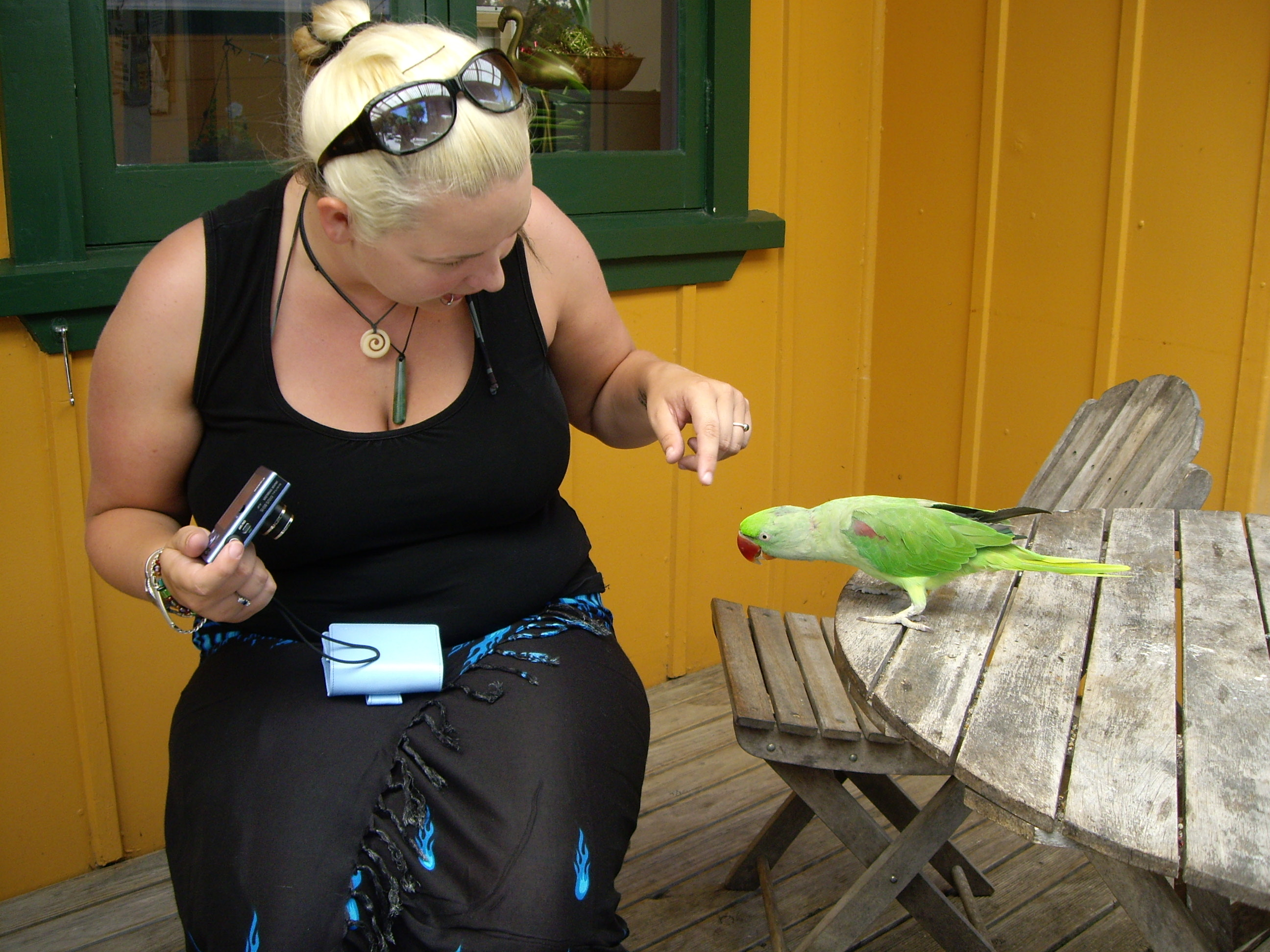 Alexandrine Parakeet or Alexandrine Parrot (Psittacula eupatria) on a wooden table next to a lady sitting on a chair with a camera.